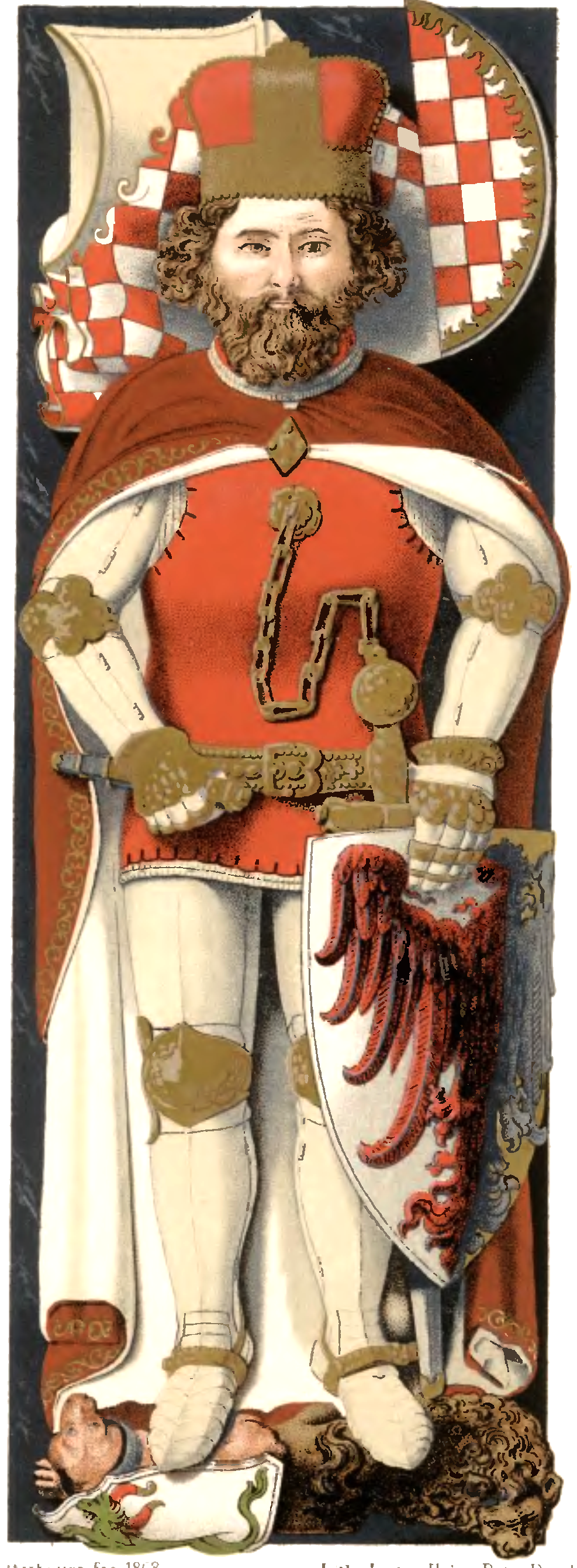 Bolko II Mały tomb effigy in Krzeszów abbey